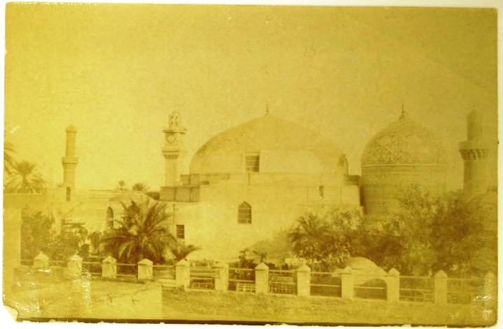 Mosque of Abdul Kadir Jelani, Baghdad, Iraq, World War I, 1917-1919